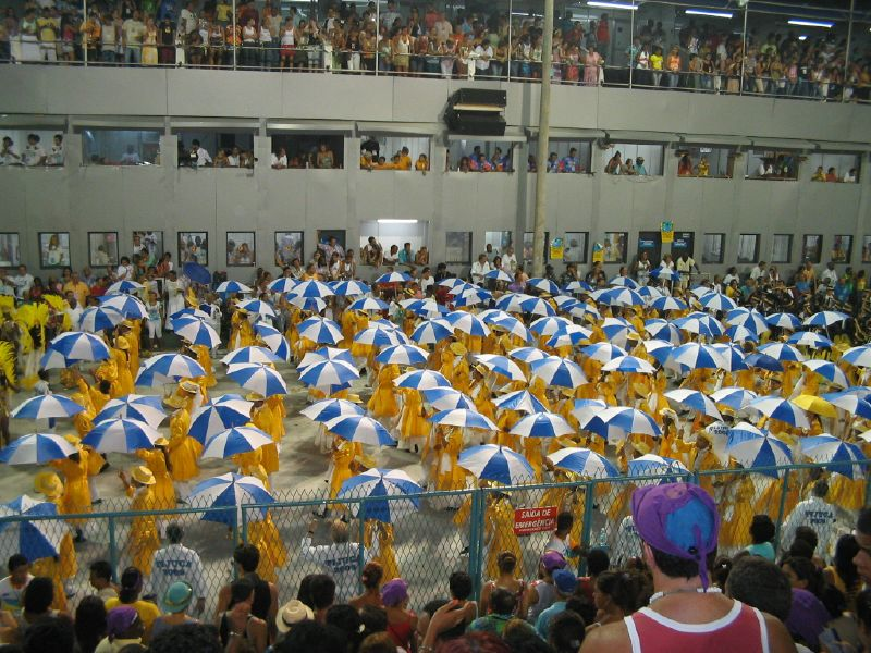 Samba School - Unidos da Tijuca - Rio, Carnaval 2006